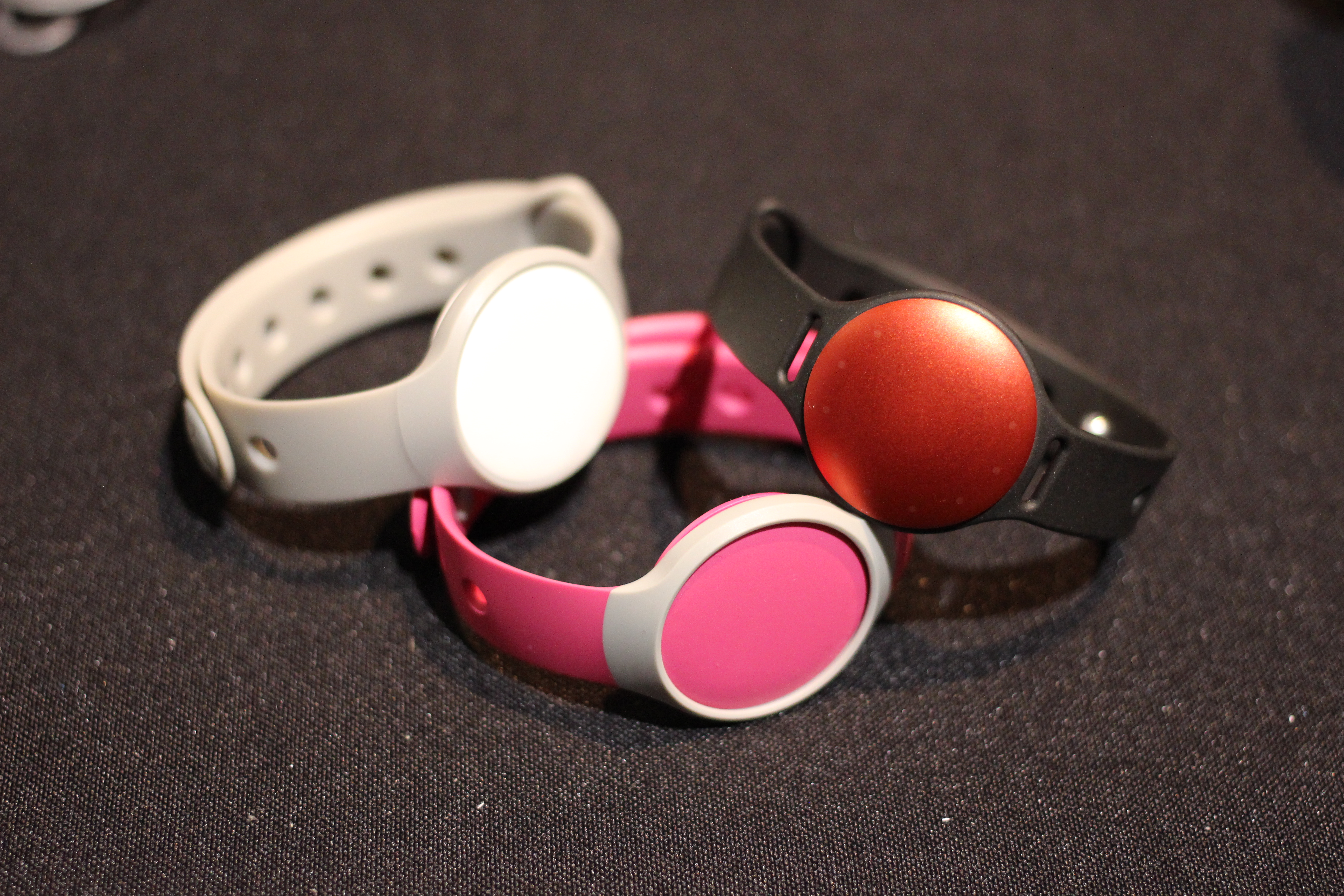 Misfit FLASH Fitness & Sleep Monitor